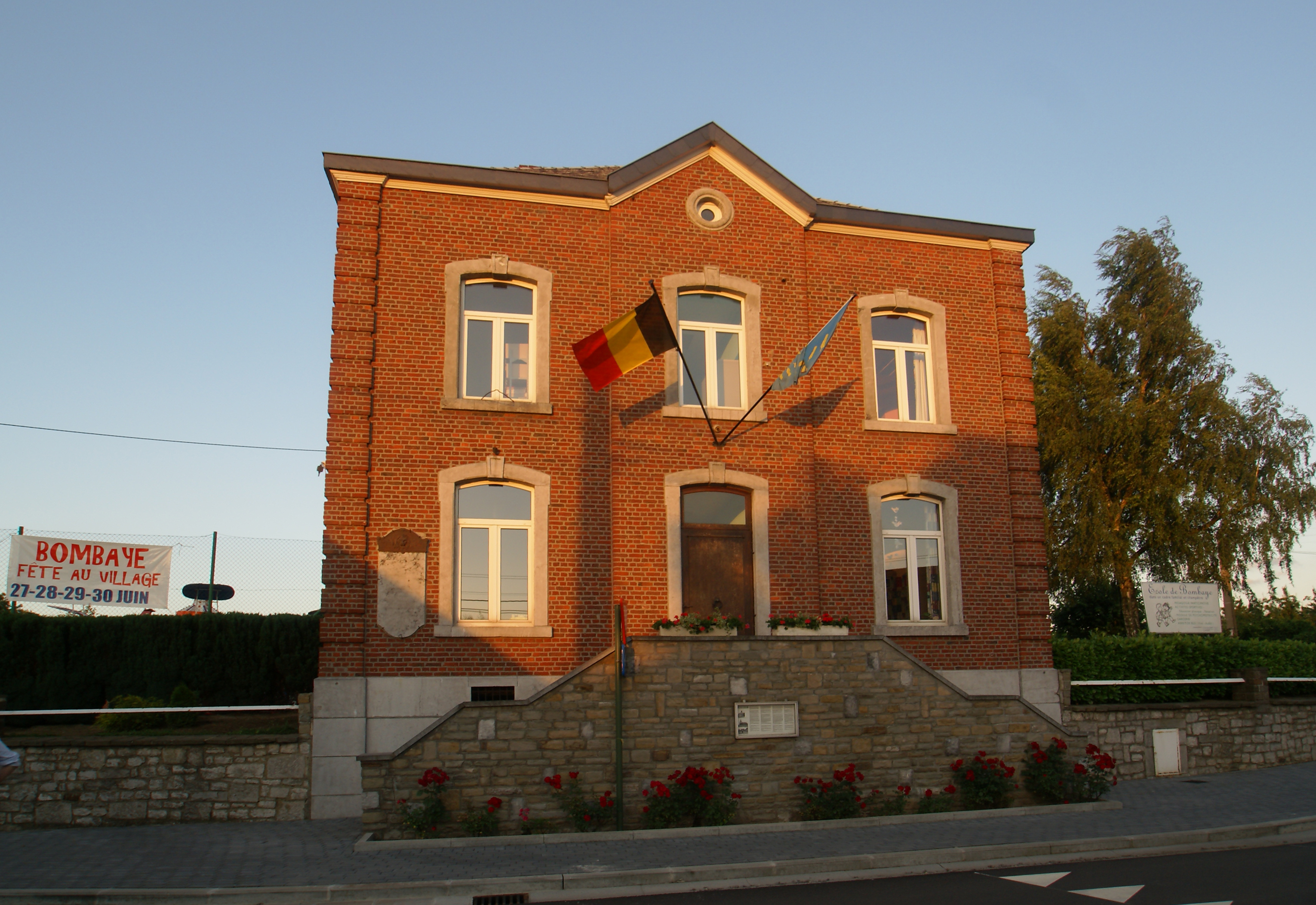 Dalhem (Belgium): Bombaye, former town hall